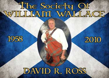 DavidRRoss-flag